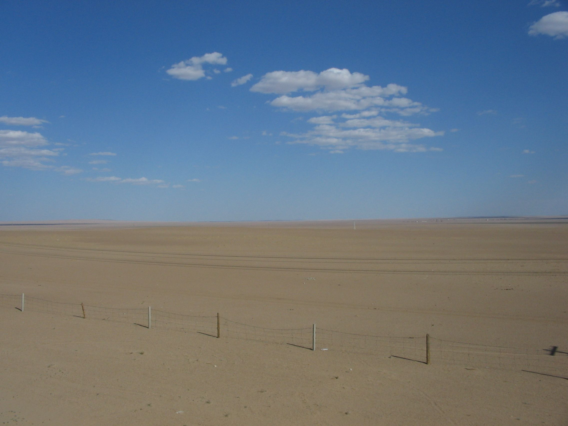 Empty plain of the Gobi Desert. In the far background a yurt settlement can be seen.